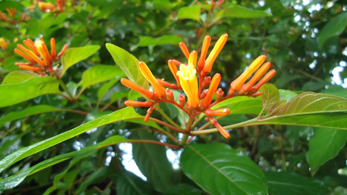 Hamelia patens, Firebush